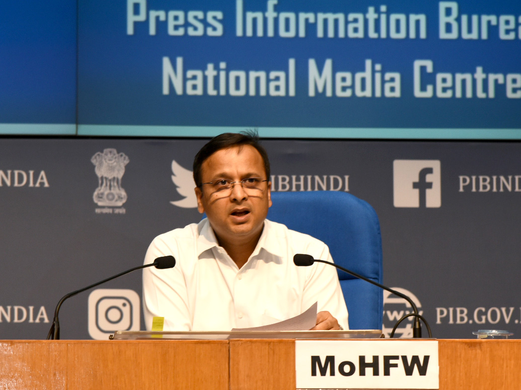 Lav Agrawal, an Indian IAS bureaucrat, addressing a press conference.